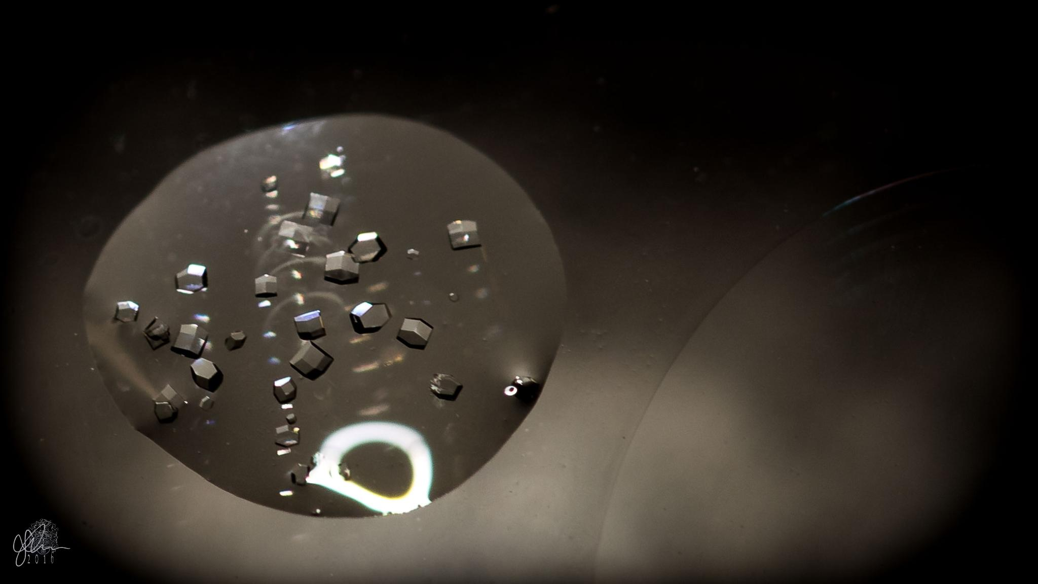 Lysozym crystals in a 20µl drop. Long edges are approx. 0.5 mm long